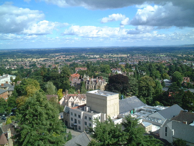 Malvern Festival Theatre. Taken from the top of Great Malvern Priory Church. The tall section is new to provide for all the standard scenery lifts. Several Bernard shaw plays were premiered at this theatre.